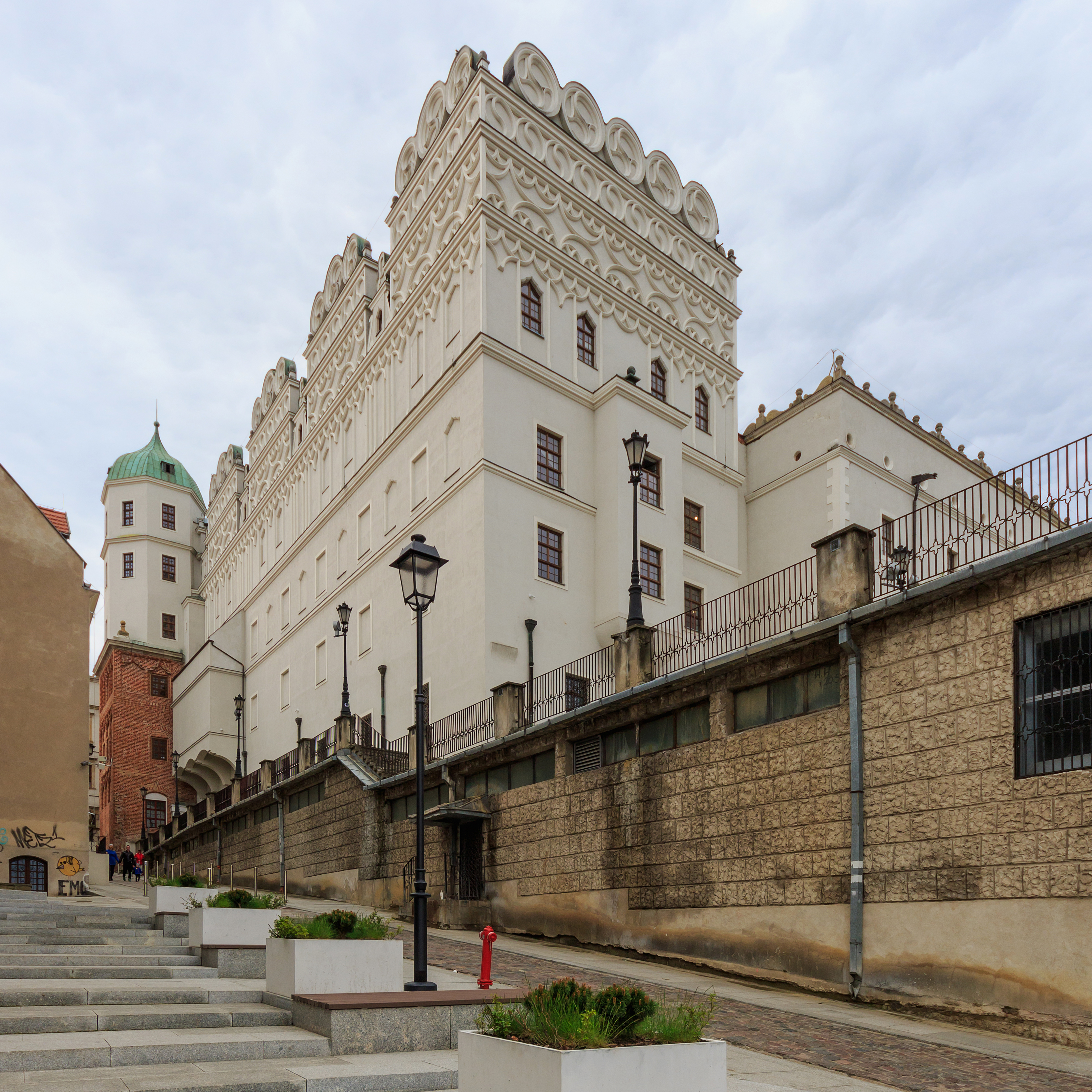 Castle in Szczecin (Poland)